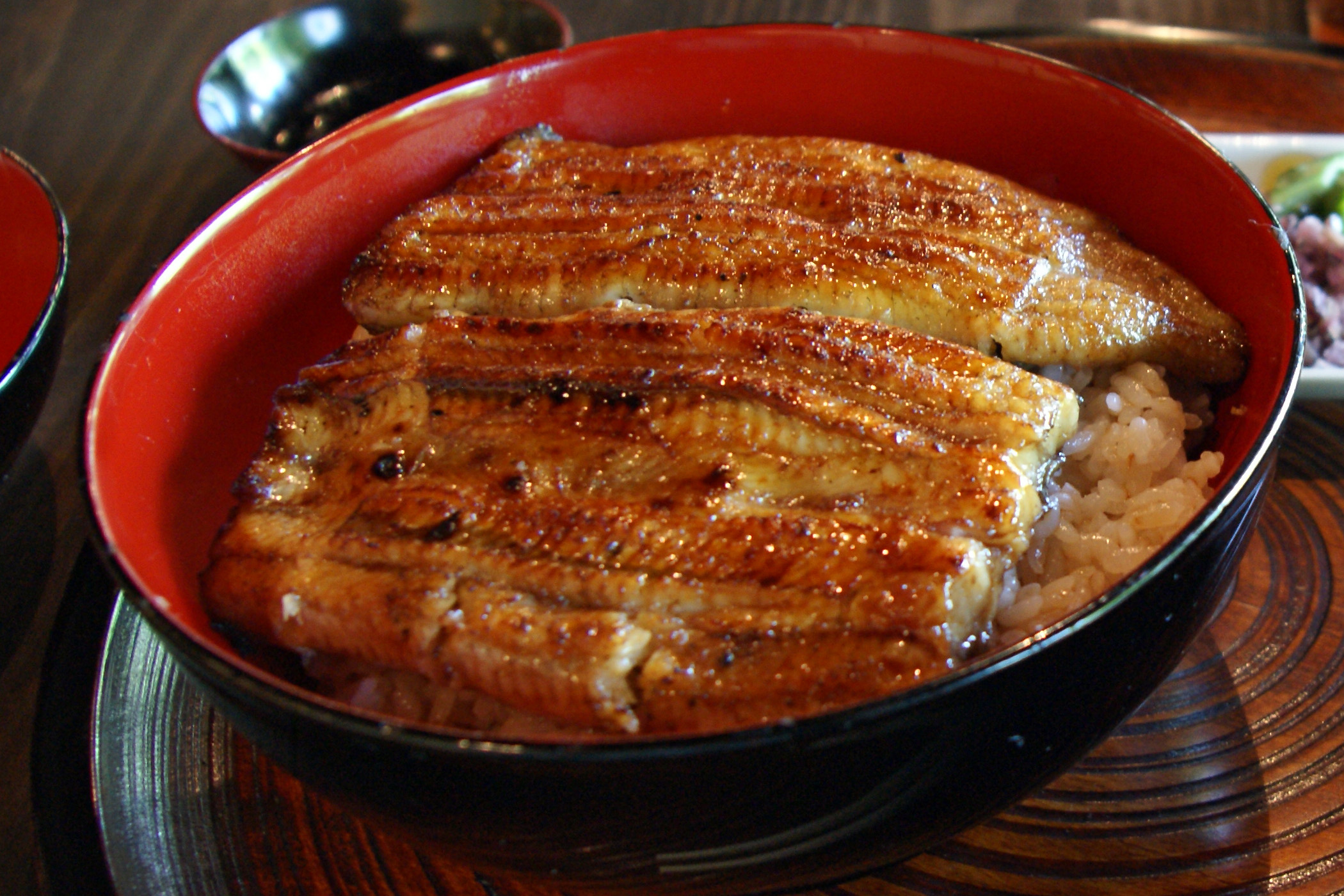 Hakutaka-ryokusuien in Nishinomiya, Hyogo prefecture, Japan